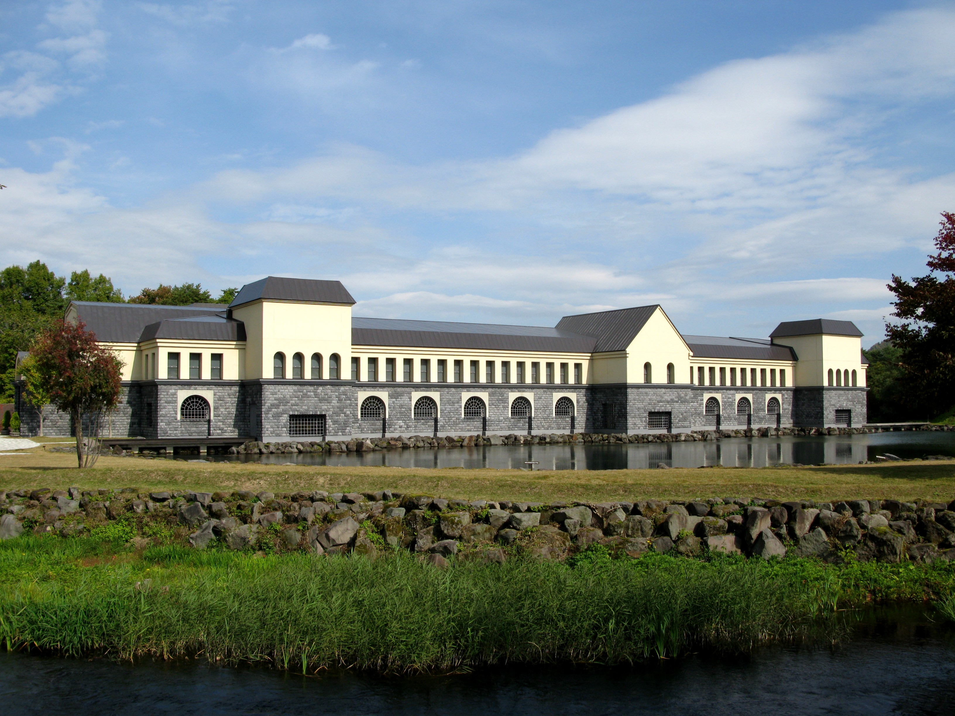 Morohashi Museum of Modern Art, Fukushima pref., Japan